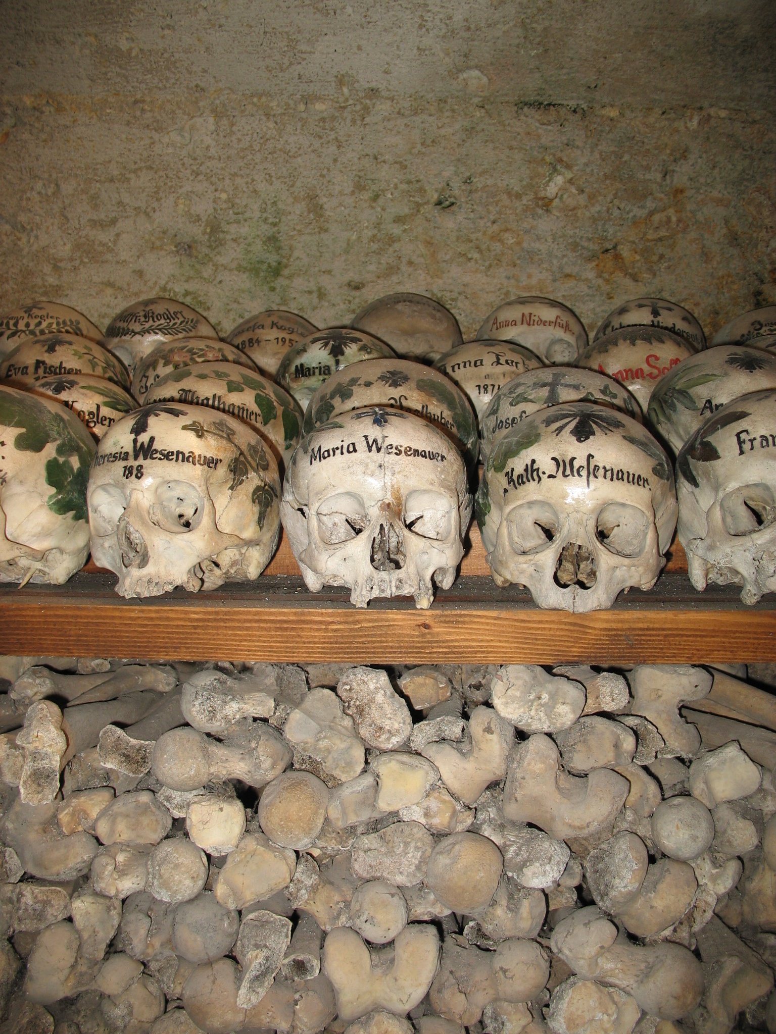 Ossuary of Hallstatt, Austria